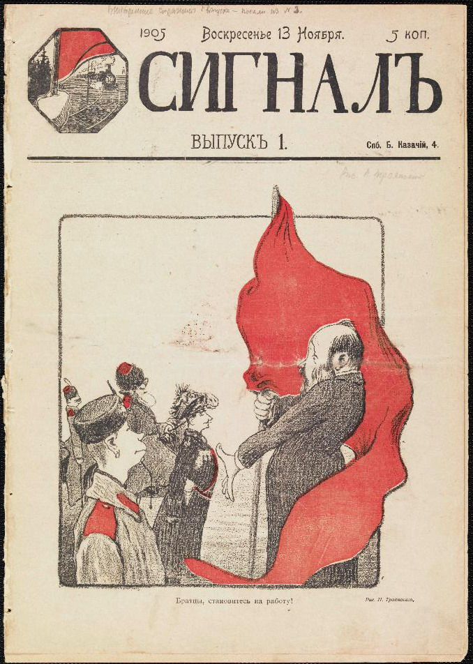 Cover of Signal Magazine (1905).